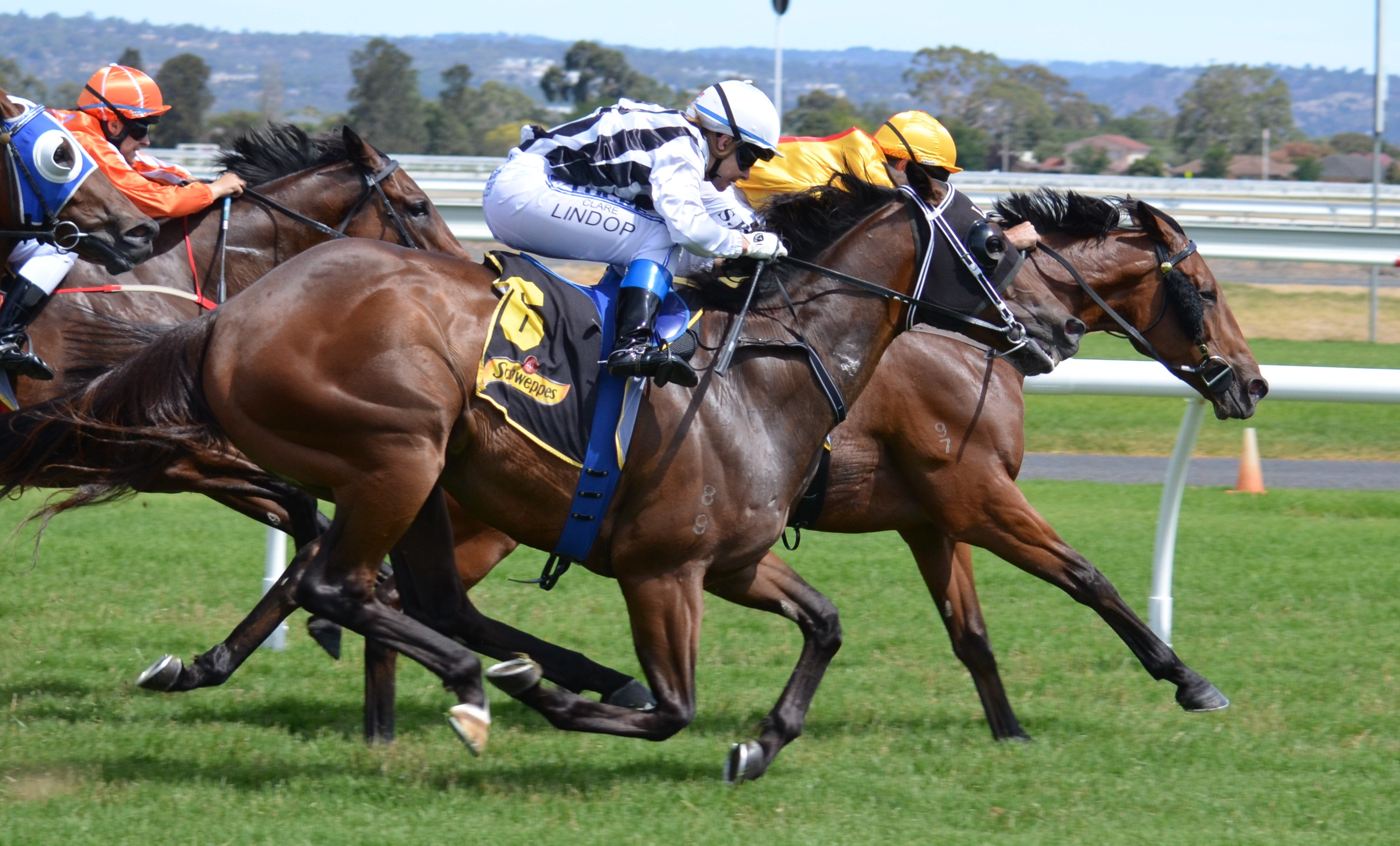 Clare Lindop rides Essay Raider to win the 2013 Schweppes Handicap at Morphettville Racecourse, Adelaide, South Australia.